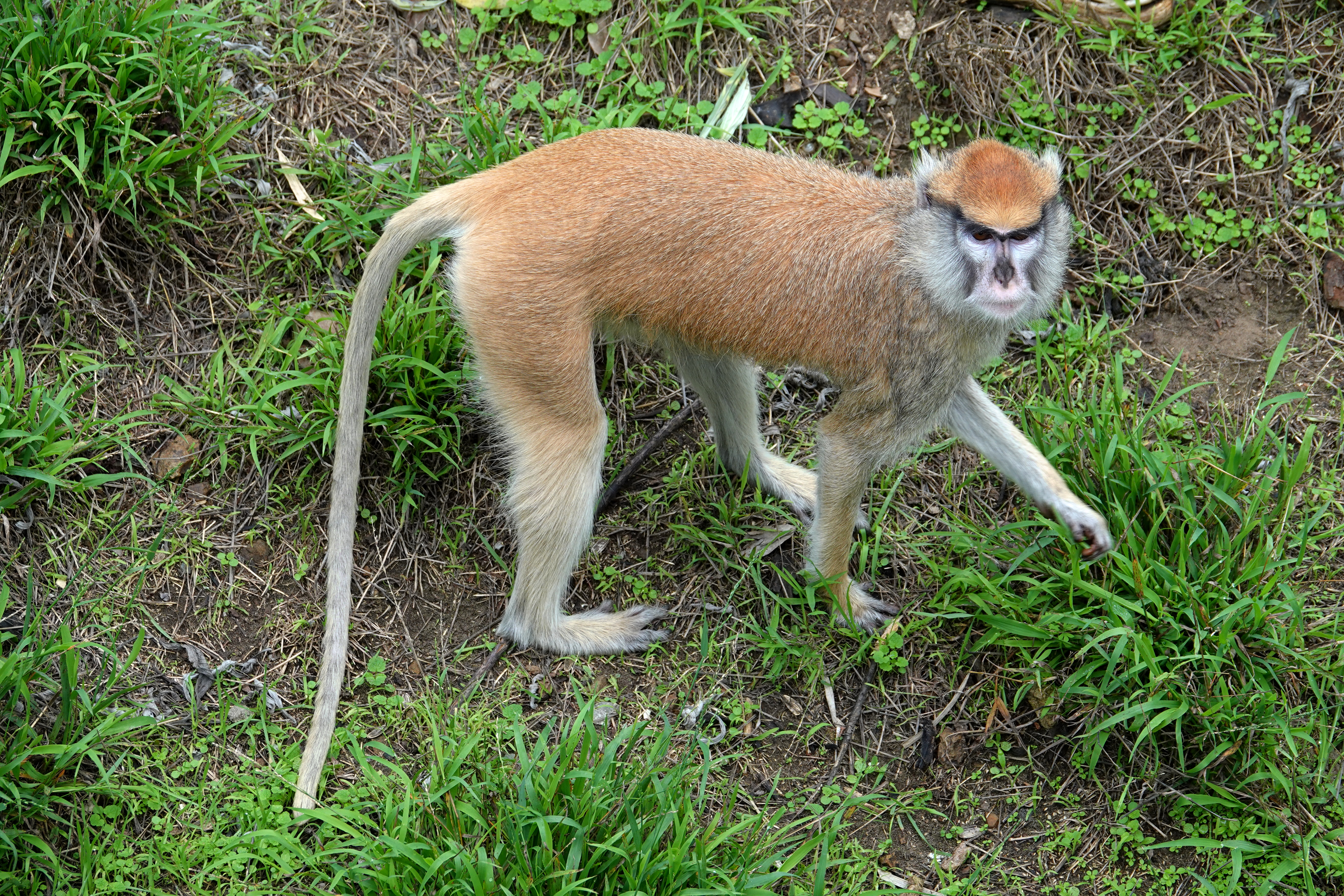 Picture of a Patas Monkey (Erythrocebus patas) at San Francisco Zoo, USA.